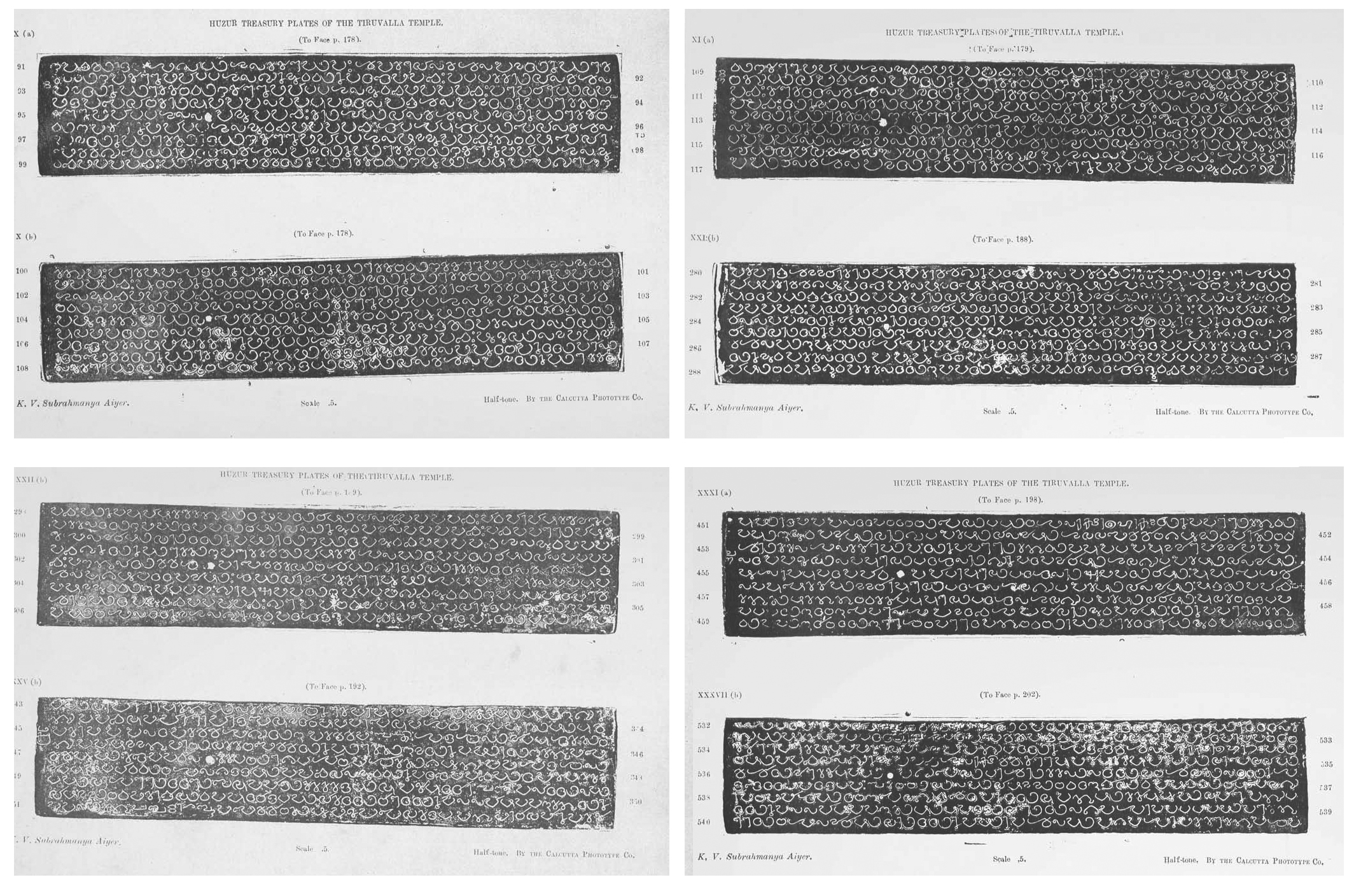 Temple committee resolutions Around ~40 plates, with some plates missing, in Old Malayalam (Vattezhuthu and Grantha) Mention king Vira Chola (Paranthaka Chola 907 - 955 AD) Mention Kodungallur Chera king Bhaskara Ravi "Manukuladitya" (962 - 1021 AD)